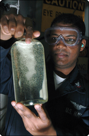 Aviation Boatswain’s Mate (Fuel) 3rd Class Vishal Mudi examines a JP-5 fuel sample. Mudi is checking that the fuel is clean, clear and bright, which ensures no sediment or water in the fuel. U.S. Navy photo by MCSN John J. Mike